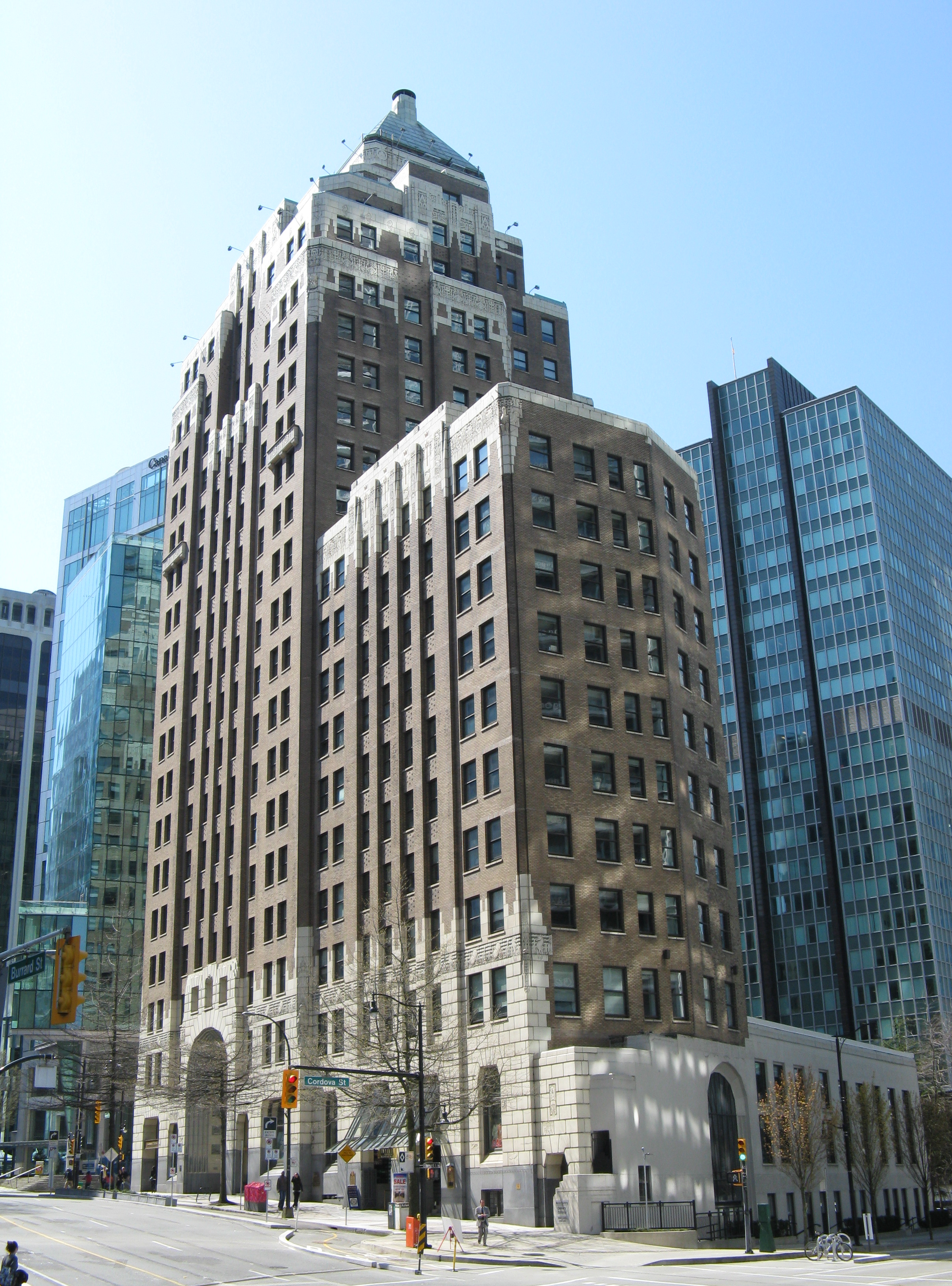 Northeast view of Marine Building from corner of Burrard and Cordova streets.